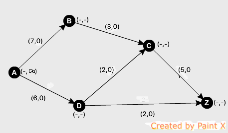 Inicijalizacija